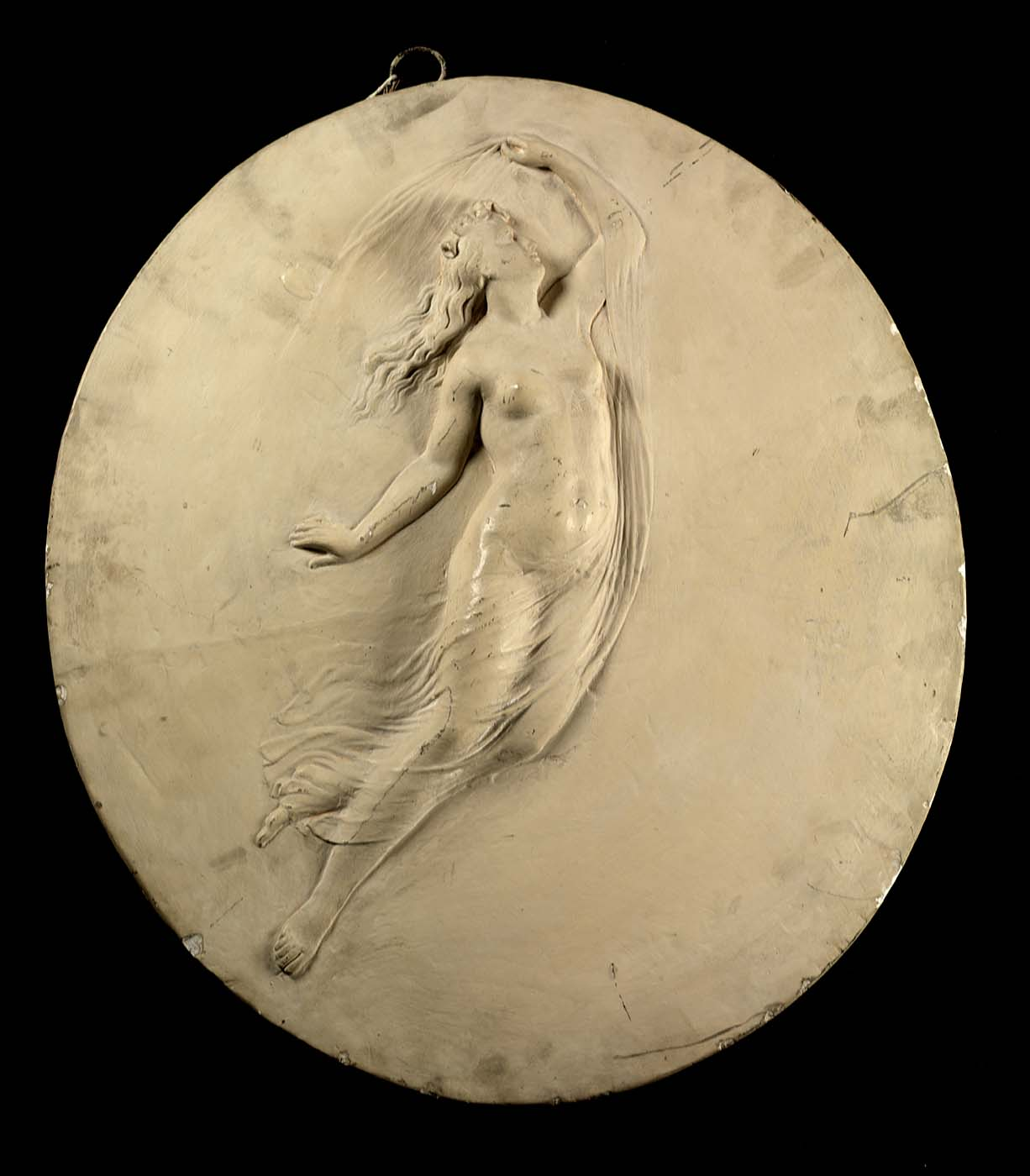 Relief of "Morning" by William Henry Rinehart (c. 1856), plaster, Smithsonian American Art Museum, 1970 gift of the Peabody Institute.